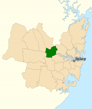 This image incorporates data that is: © Commonwealth of Australia (Australian Electoral Commission) 2009 Division of Parramatta 2010